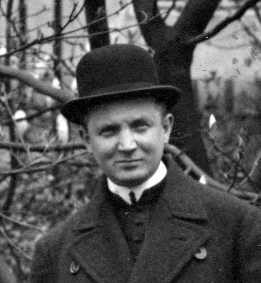 Augustin Alois Neumann